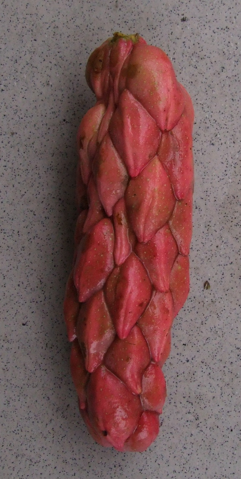 Magnolia × soulangeana fruit